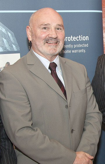 Alex Maskey MLA